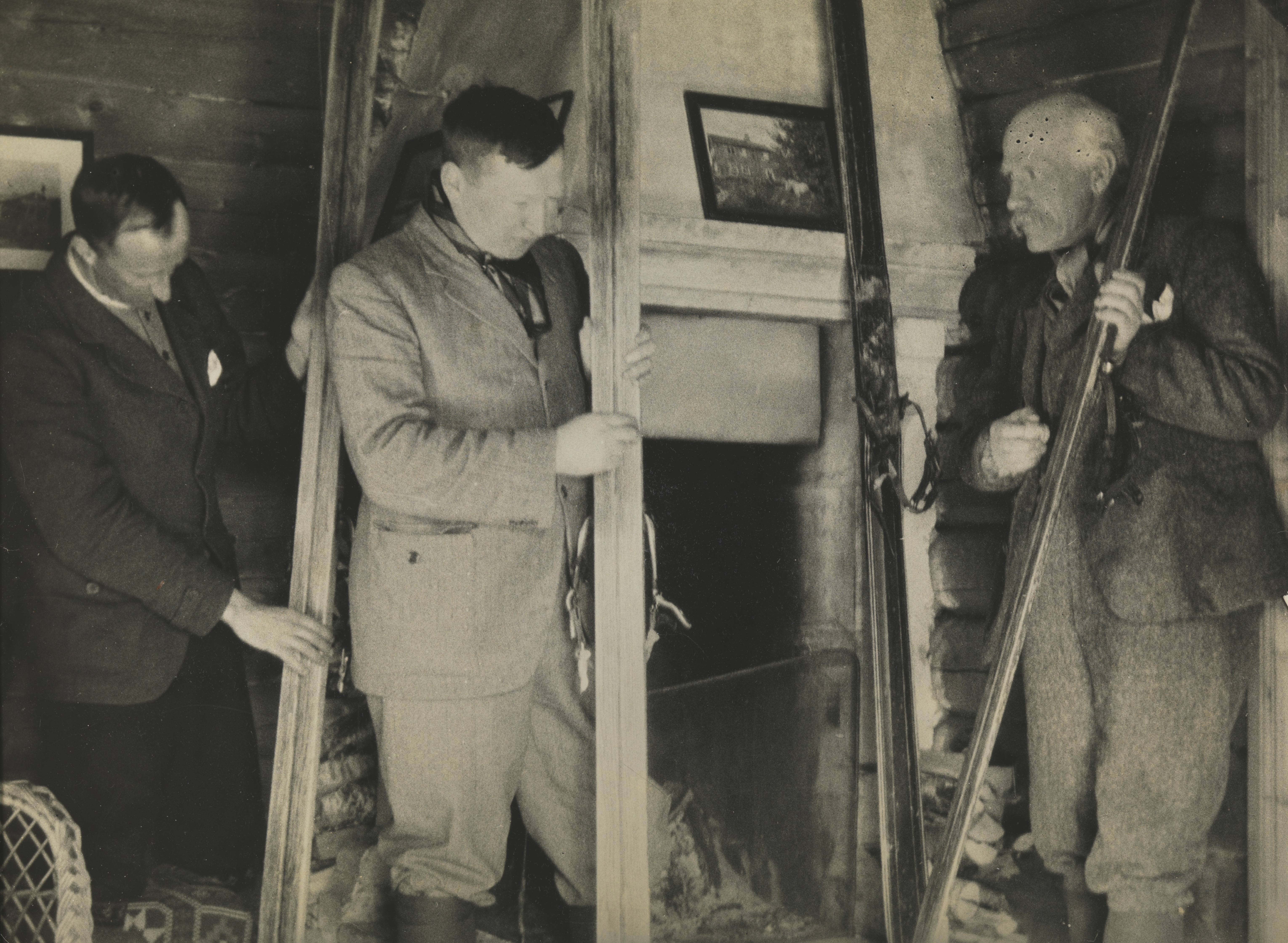 From the left, Wilhelm Thorleif von Munthe af Morgenstierne, Jacob Stenersen Worm-Müller and Fridtjof Nansen preparing their skis before skiing at Golå.